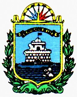 My version of the Puerto Cabello coat of arms.